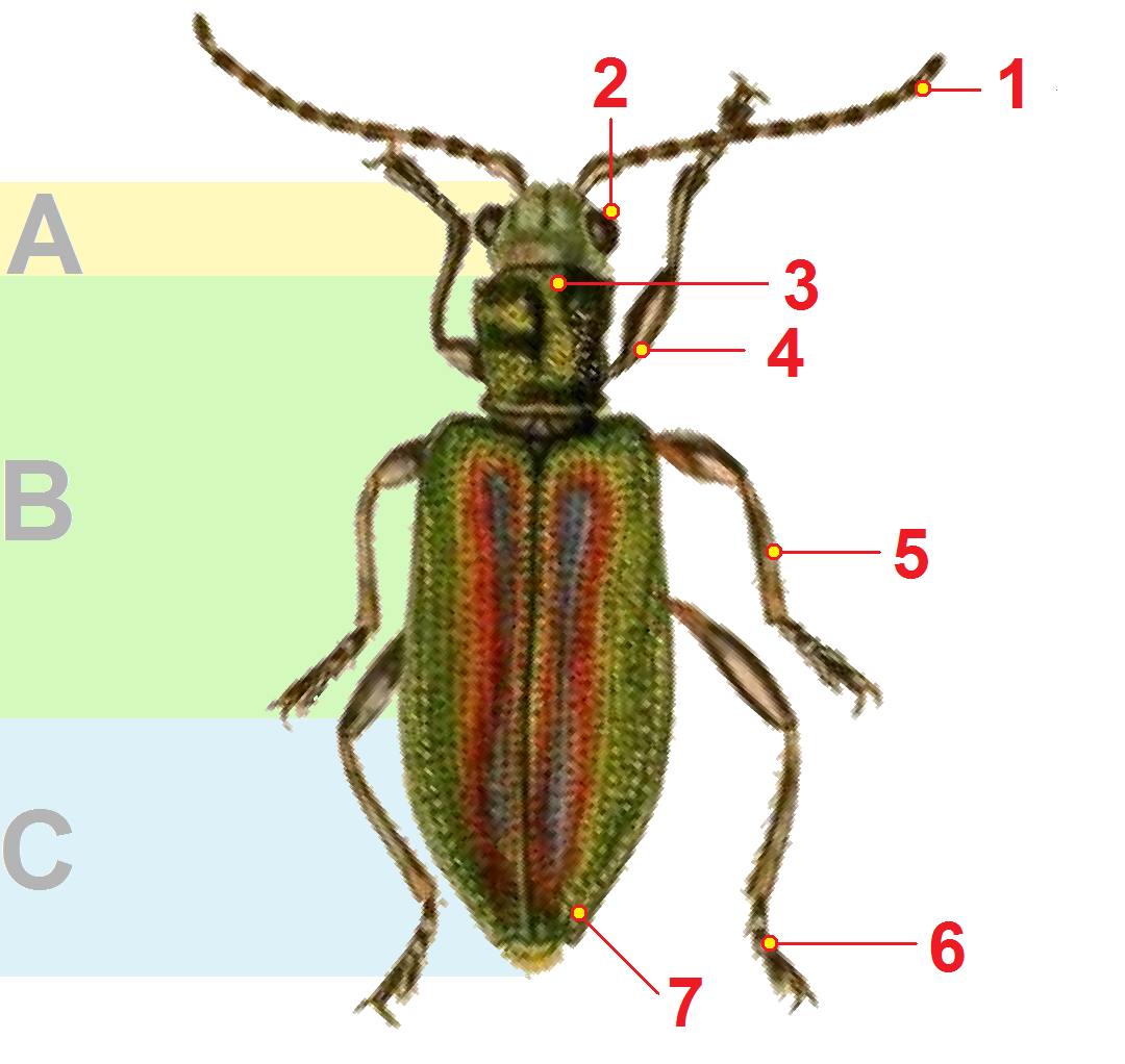 An illustration from British Entomology by John Curtis. Coleoptera: Donacia typhae (Reed-mace Donacia) Donacia vulgaris; with dissections from D. cincta Germ.